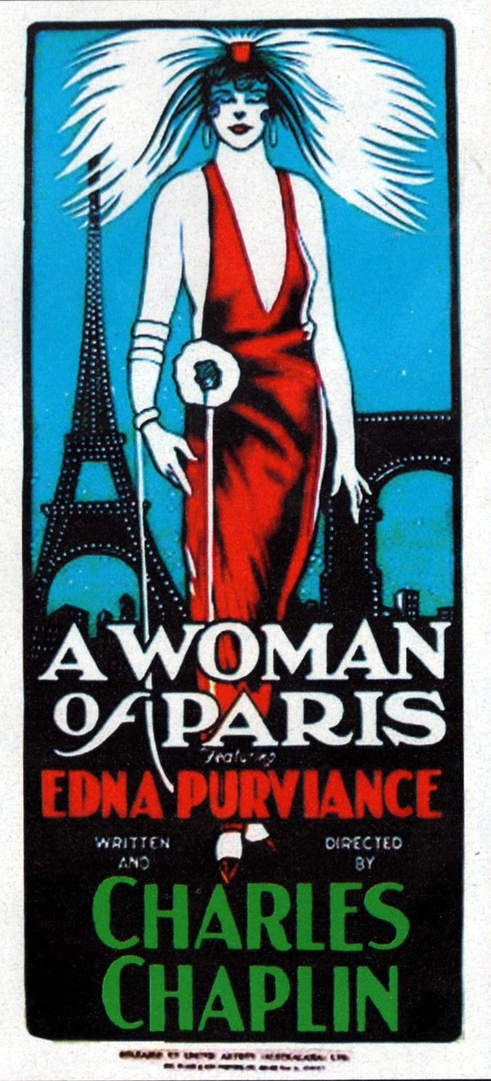 Poster for the American film A Woman of Paris (1923).